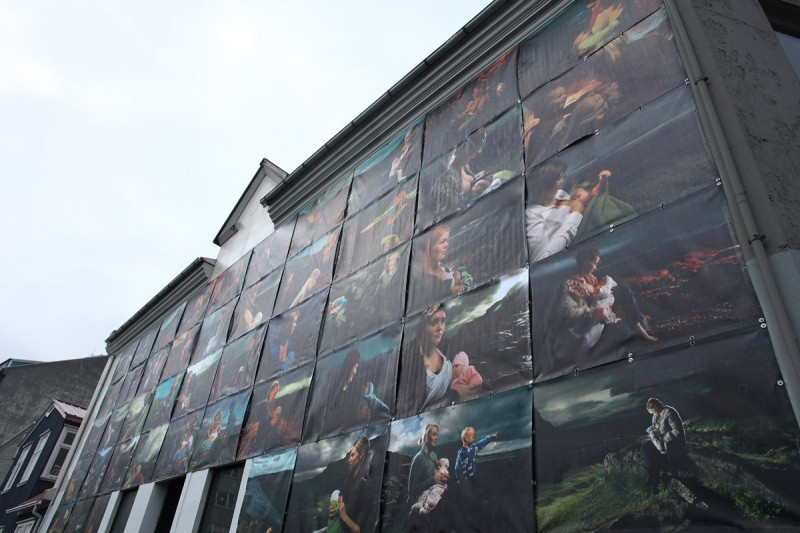 "See It" project by Fiann Paul. The installation of the photographs of the Icelandic mothers breastfeeding, taken in the remote areas of Iceland, decorated the building at Tryggvagata in the heart of the capital city of Iceland from September 2011 to March 2012. Project dedicated to promotion of the awareness of breastfeeding. Copyrights released for Wikipedia under creative common license, Uploaded by author from